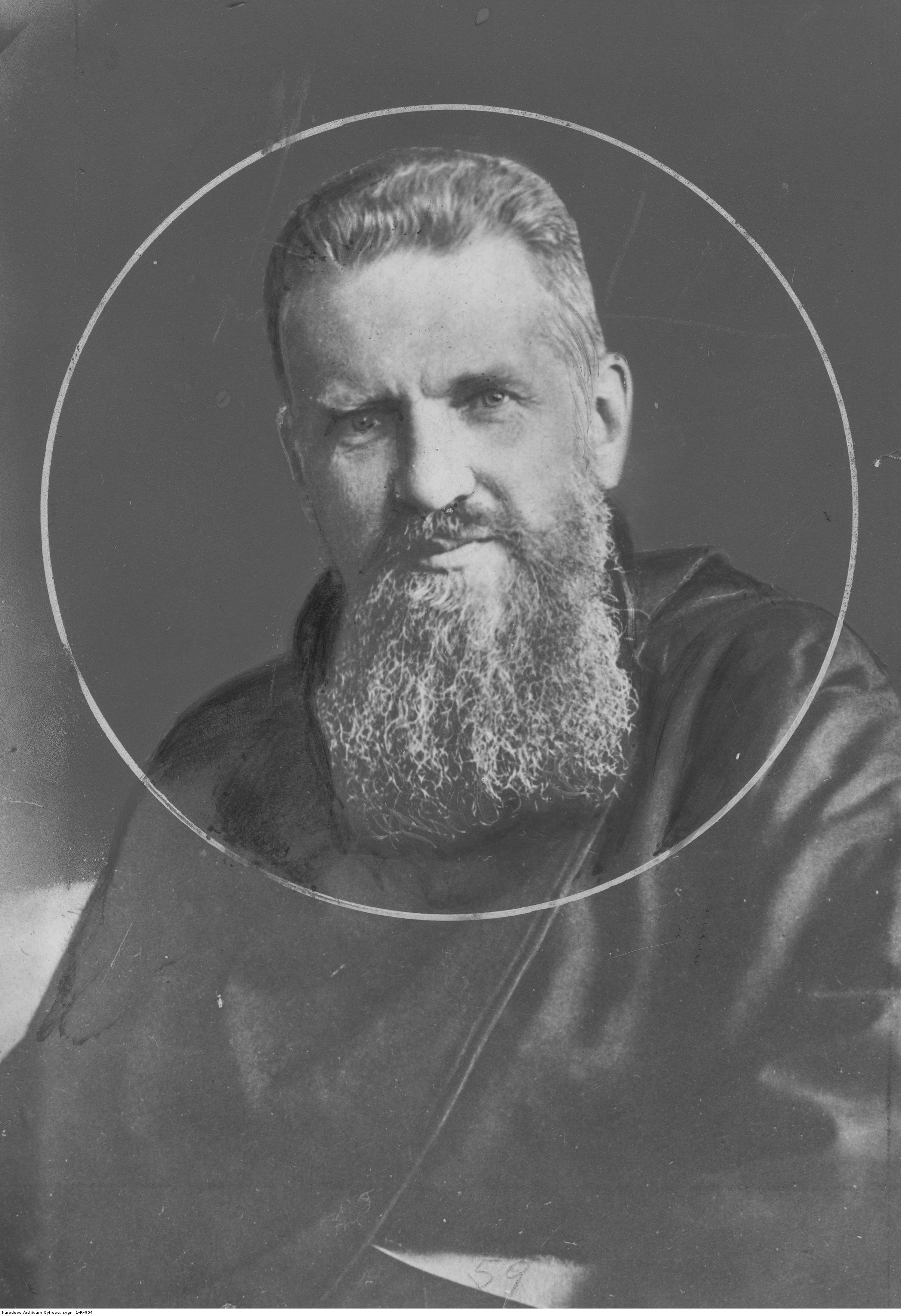 Metropolitan Andrey Sheptytsky (1865-1944) - Metropolitan Archbishop of the Ukrainian Greek Catholic Church from 1901 until his death. In 1958 the process of his beatification was begun and now is well advanced.